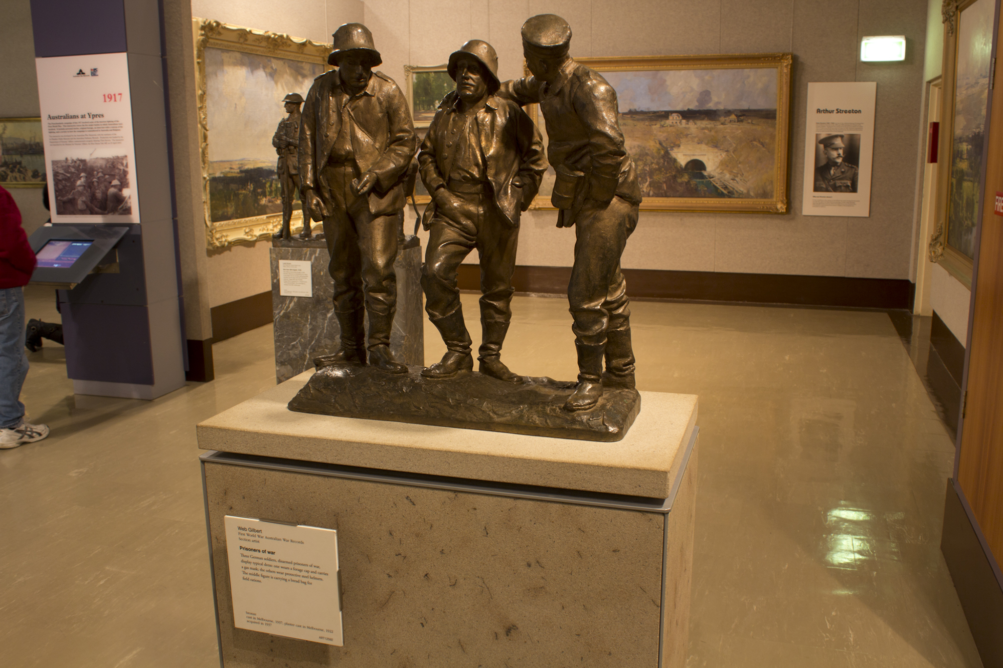 Western Front Gallery at the Australian War Memorial.